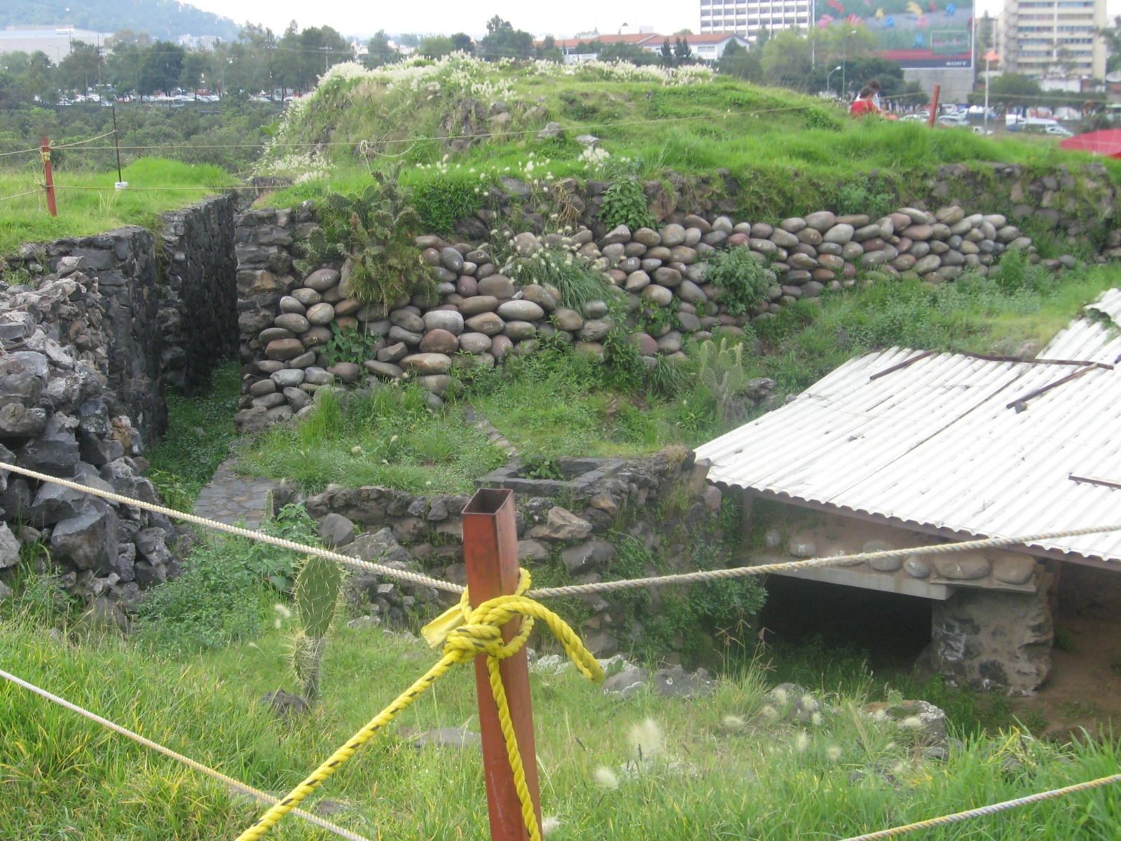 Depression dug into the top of the Cuicuilco main circular pyramid containing remnants of 5 altars (protected by the corregated metal roof), located in Tlalpan borough Mexico City